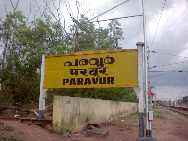 Paravur(PVU) Railway station name board in Platform Number.1